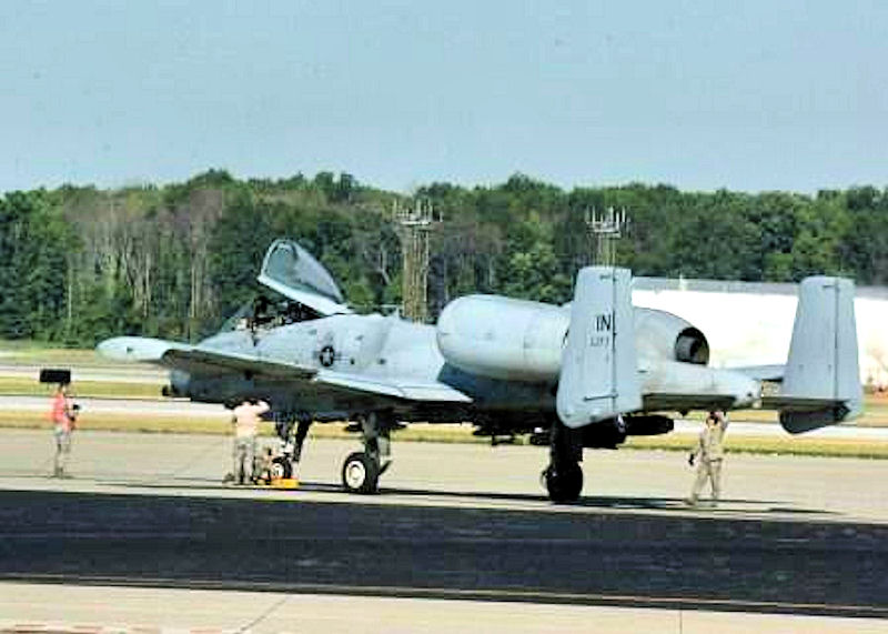 An Indiana Air National Guard Airmen with the 122nd Fighter Wing at Fort Wayne Air National Guard Station prepares a Fairchild Republic A-10 Thunderbolt II, “Warthog” for flight during Bold Quest 12-1 June 6. More than 11 Nations participated or observed the systems communications check. (Army photo by Sgt. Will Hill, Atterbury-Muscatatuck Public Affairs)